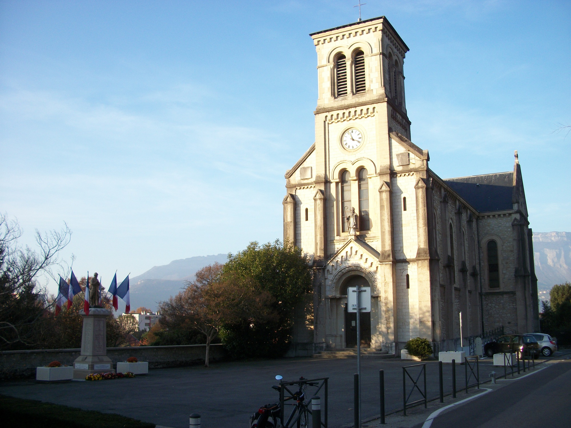 Saint-Martin church, Village neighborhood, in Saint-Martin d'Hères, Isère, France. Object location45° 09′ 55.55″ N, 5° 46′ 05.77″ E SMH eglise St-Martin 6796.jpg has an entry on OpenStreetMap. (show) Place de l'église